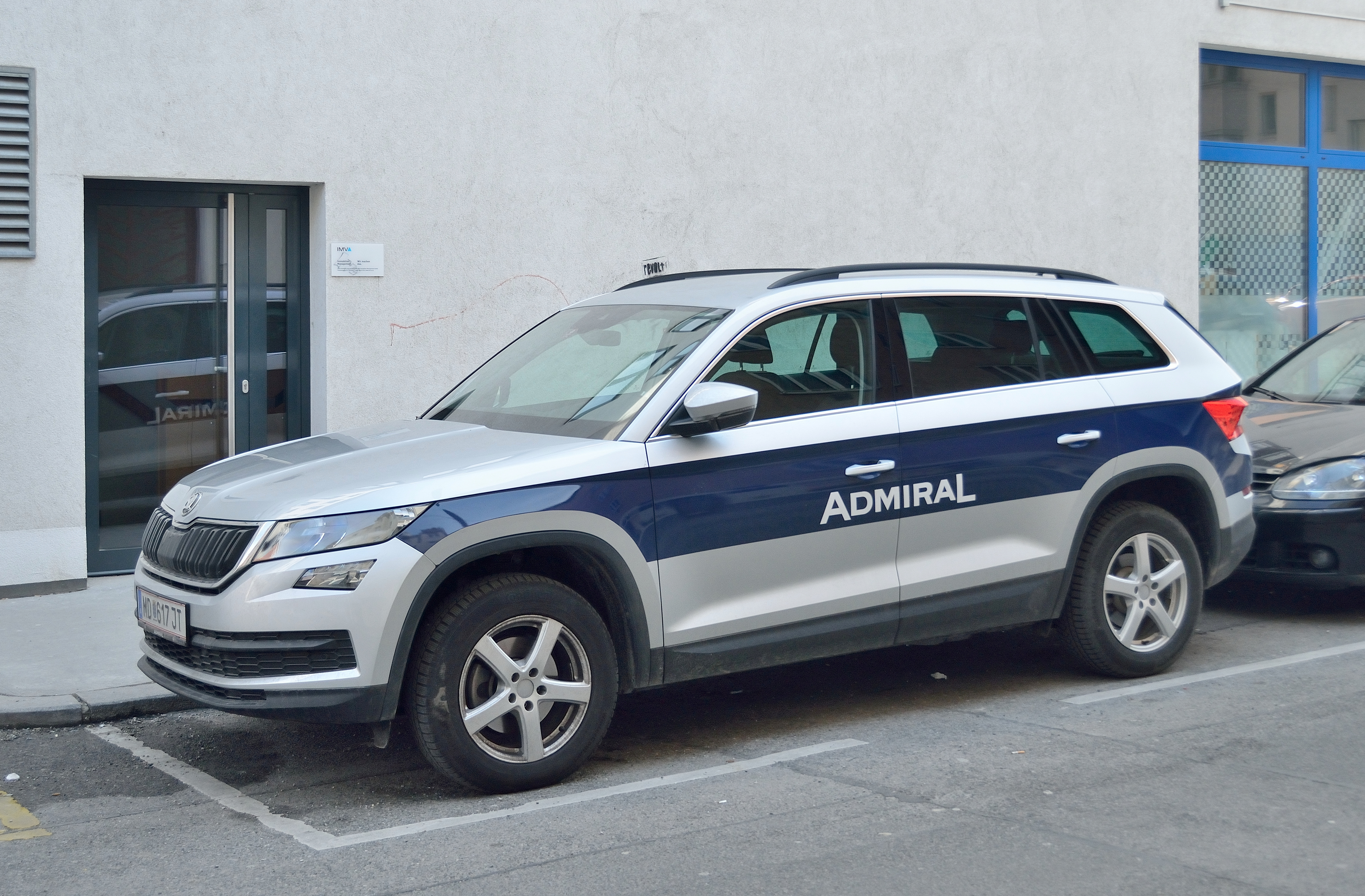 A Skoda designed for Admiral Sportwettten, seen in the Aichhorngasse, in Meidling, Vienna.